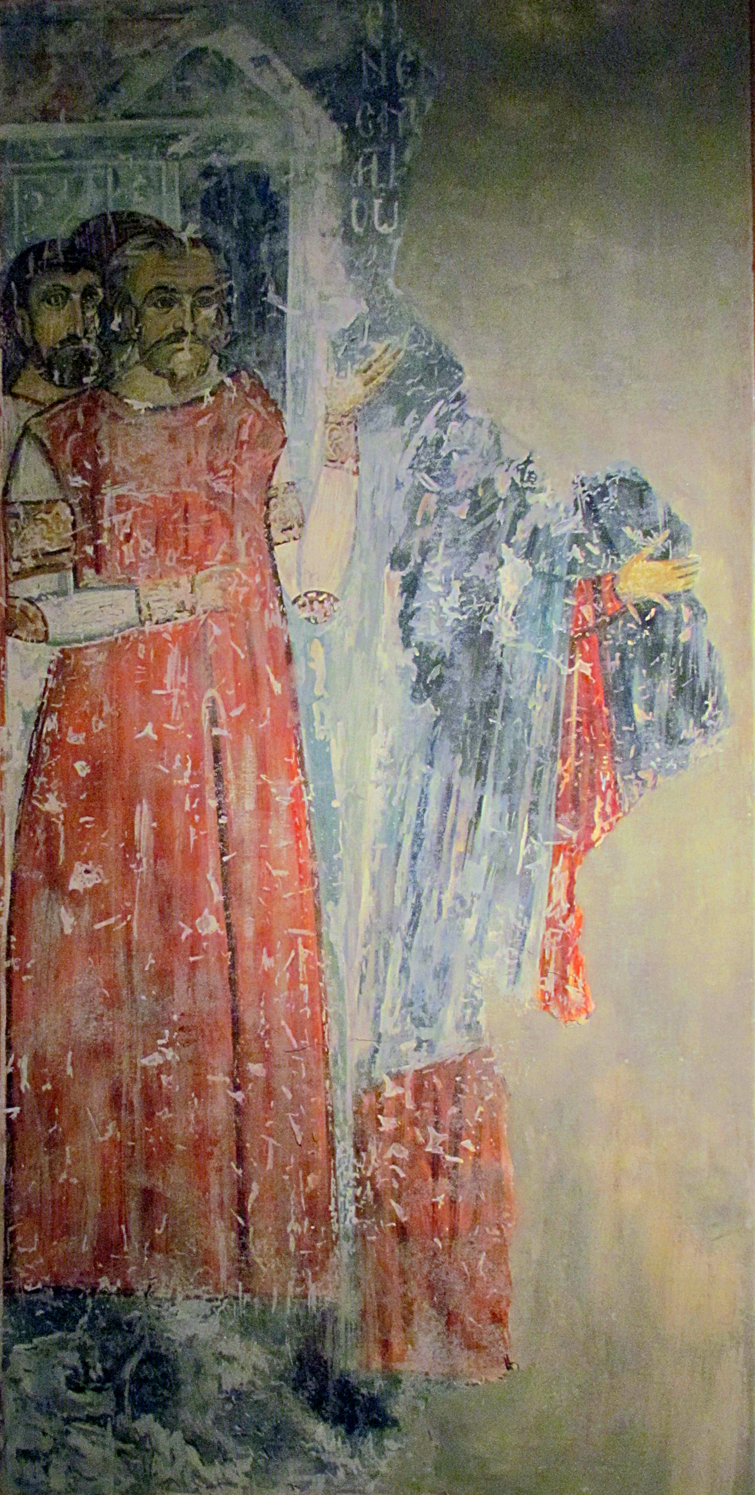 Stefan Nemanja taking monastic vows, Studenica monastery, copy